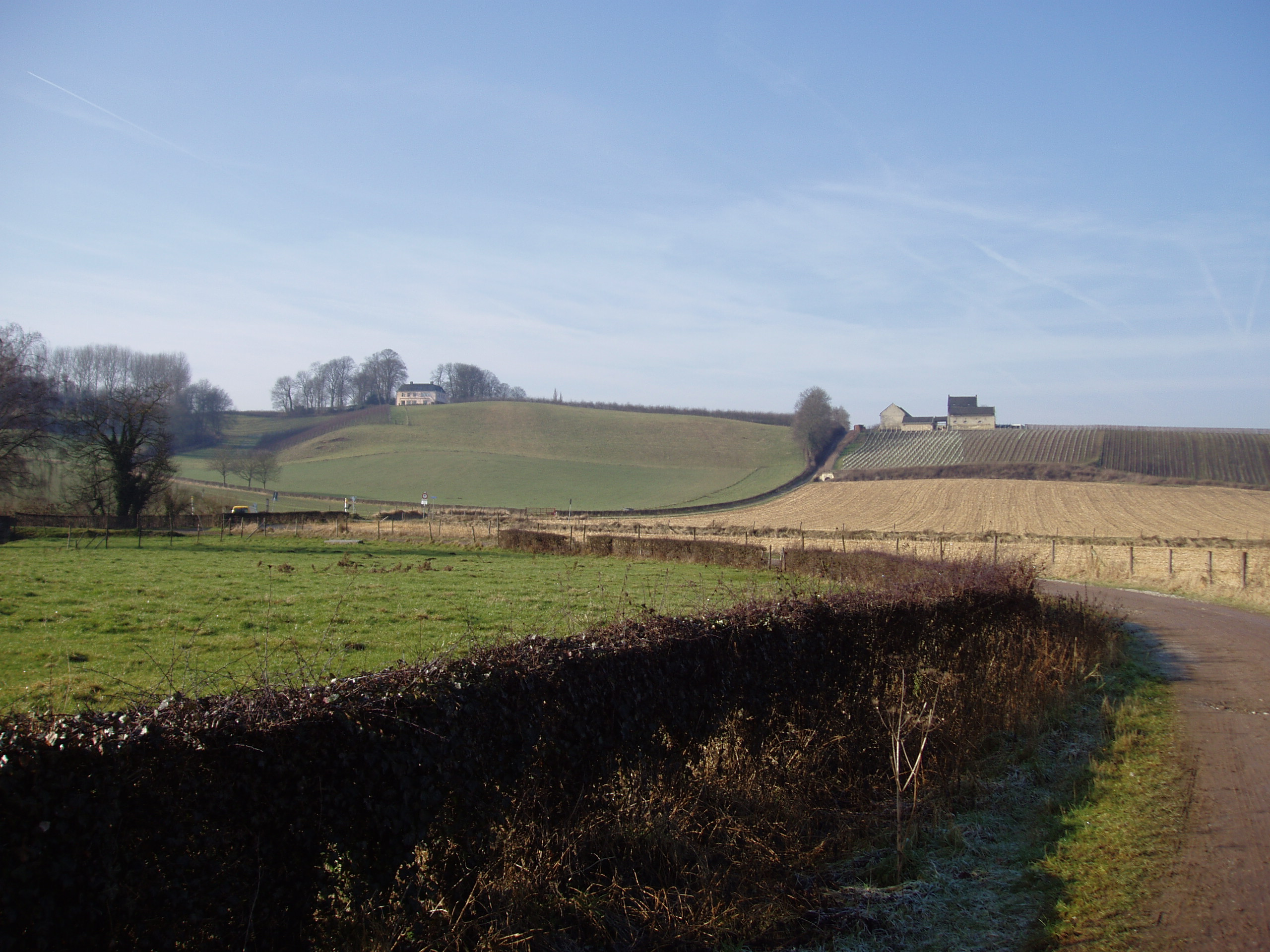 The valley of the river Jeker, southern Maastricht, Limburg, Netherlands